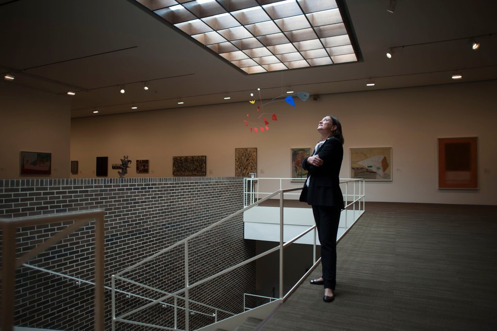 A look inside Purchase College's Neuberger Museum, revamped in 2012.